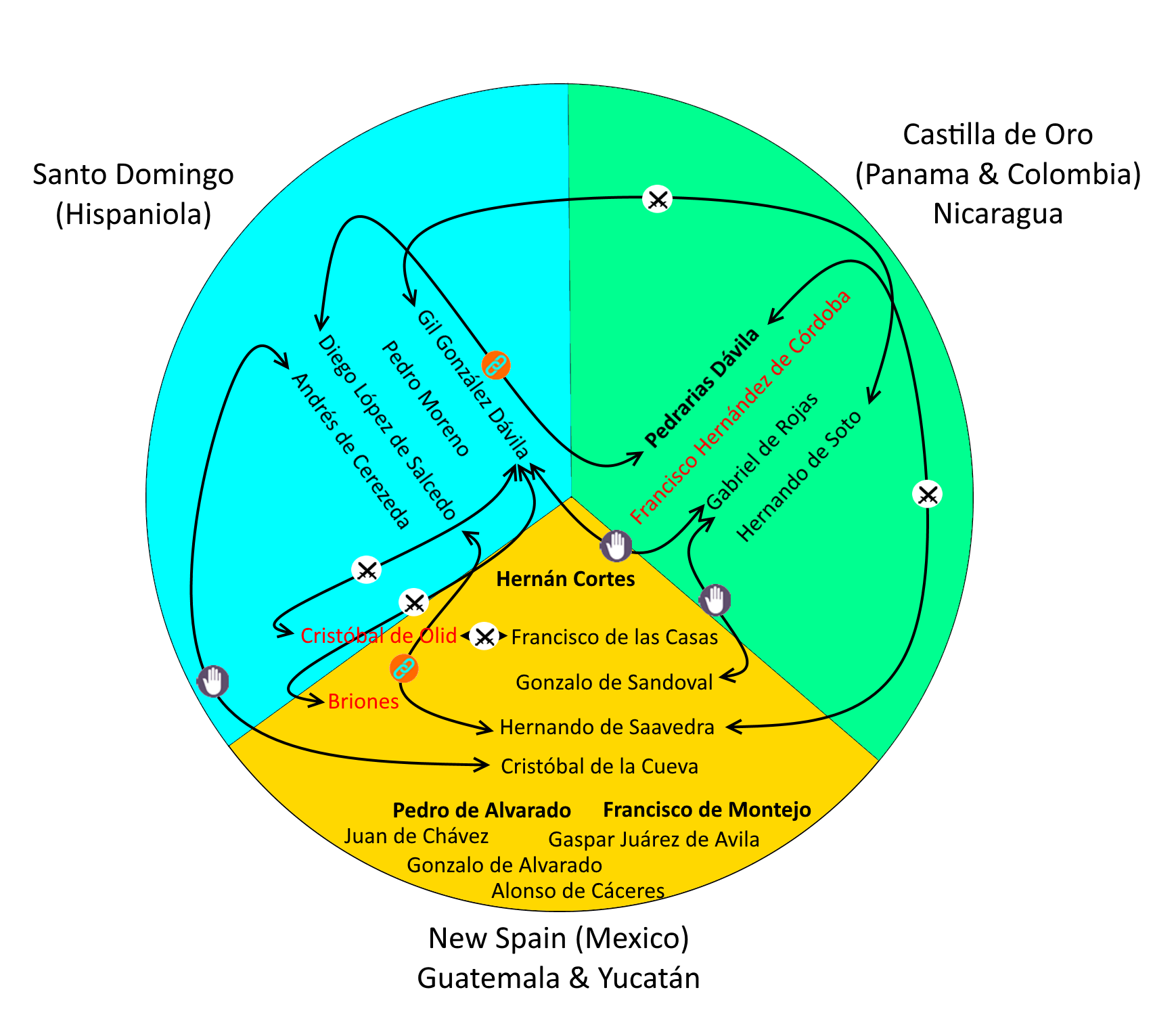 This diagram displays interactions between different Spanish factions during the Spanish conquest of Honduras between 1524 and 1540. The three coloured sections represent general jurisdictions. Commanders in bold had authority in territories beyond Honduras. Commanders in red rebelled against their superior officer. Crossed swords indicate an open battle between two Spanish groups Chain indicates one officer was imprisoned by the other. Hand indicates a tense stand-off that did not erupt into battle. Source: Mainly Chamberlain's The Conquest and Colonization of Honduras.